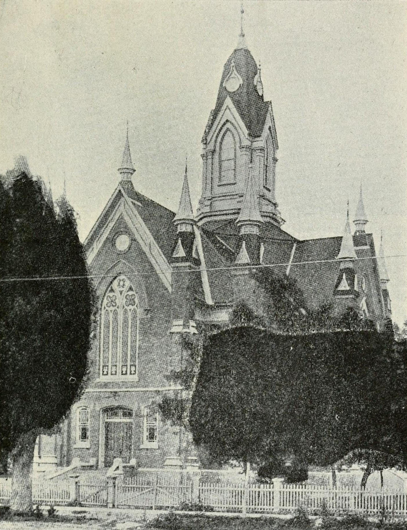 This is a photograph of the Summit Stake Tabernacle of The Church of Jesus Christ of Latter-day Saints (Mormon), published in 1914 in the Improvement Era magazine. Located Coalville, Utah, United States, it was built in 1883 and dedicated in 1899. T. L. Allen was the architect.